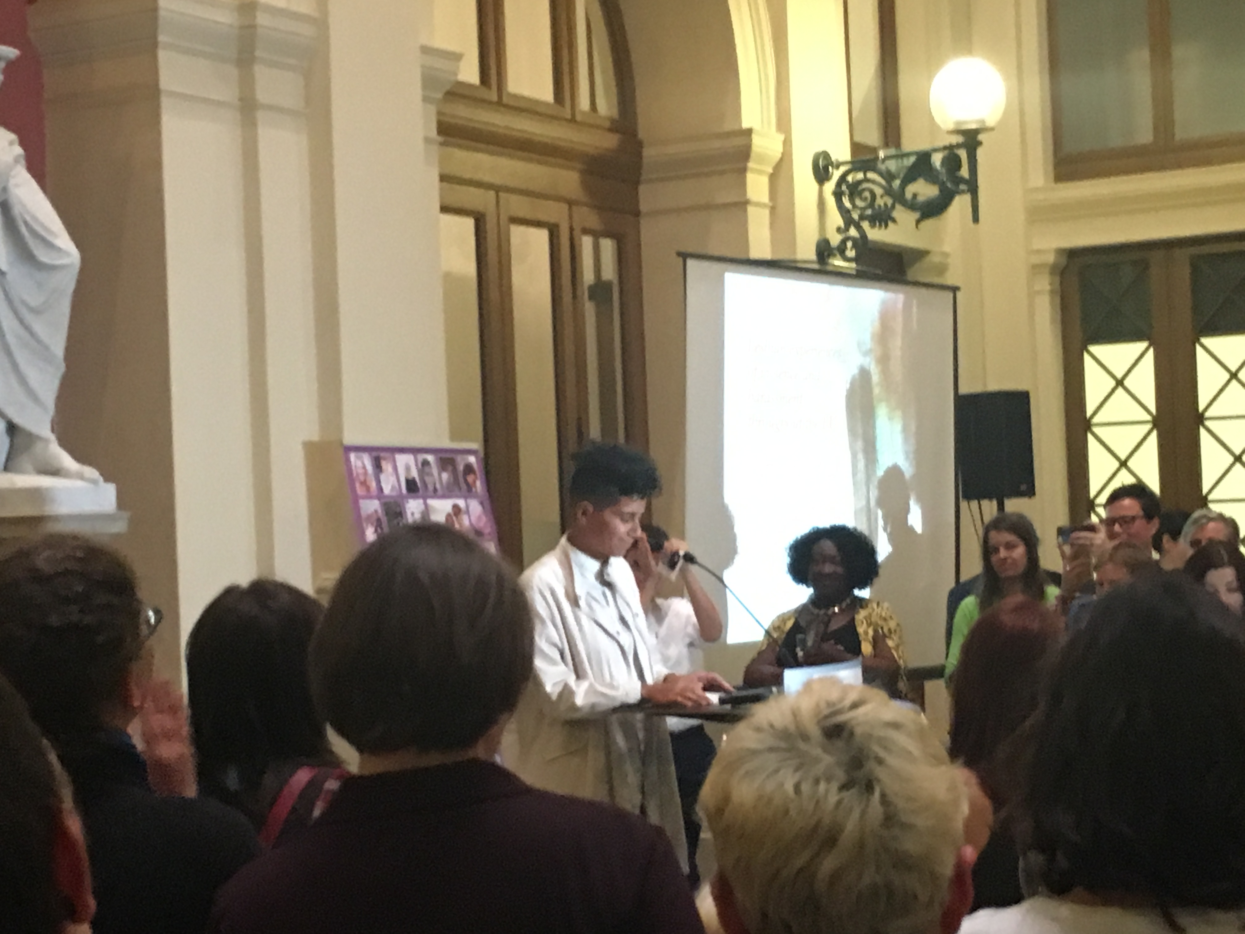 One of the introductory speech at the European Lesbian Confenrence in Vienna, October 2017 by Faika El-Nagashi